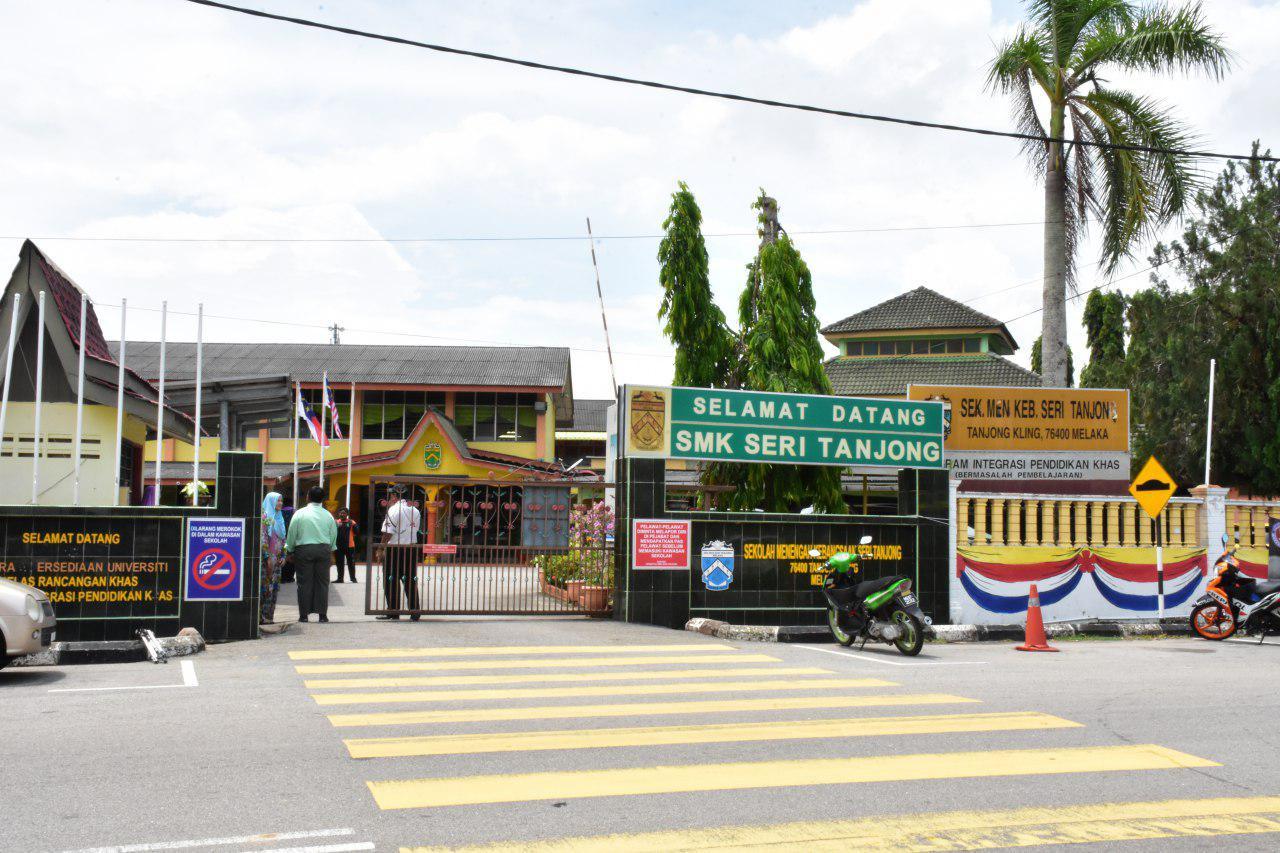 Pandangan Hadapan Sekolah